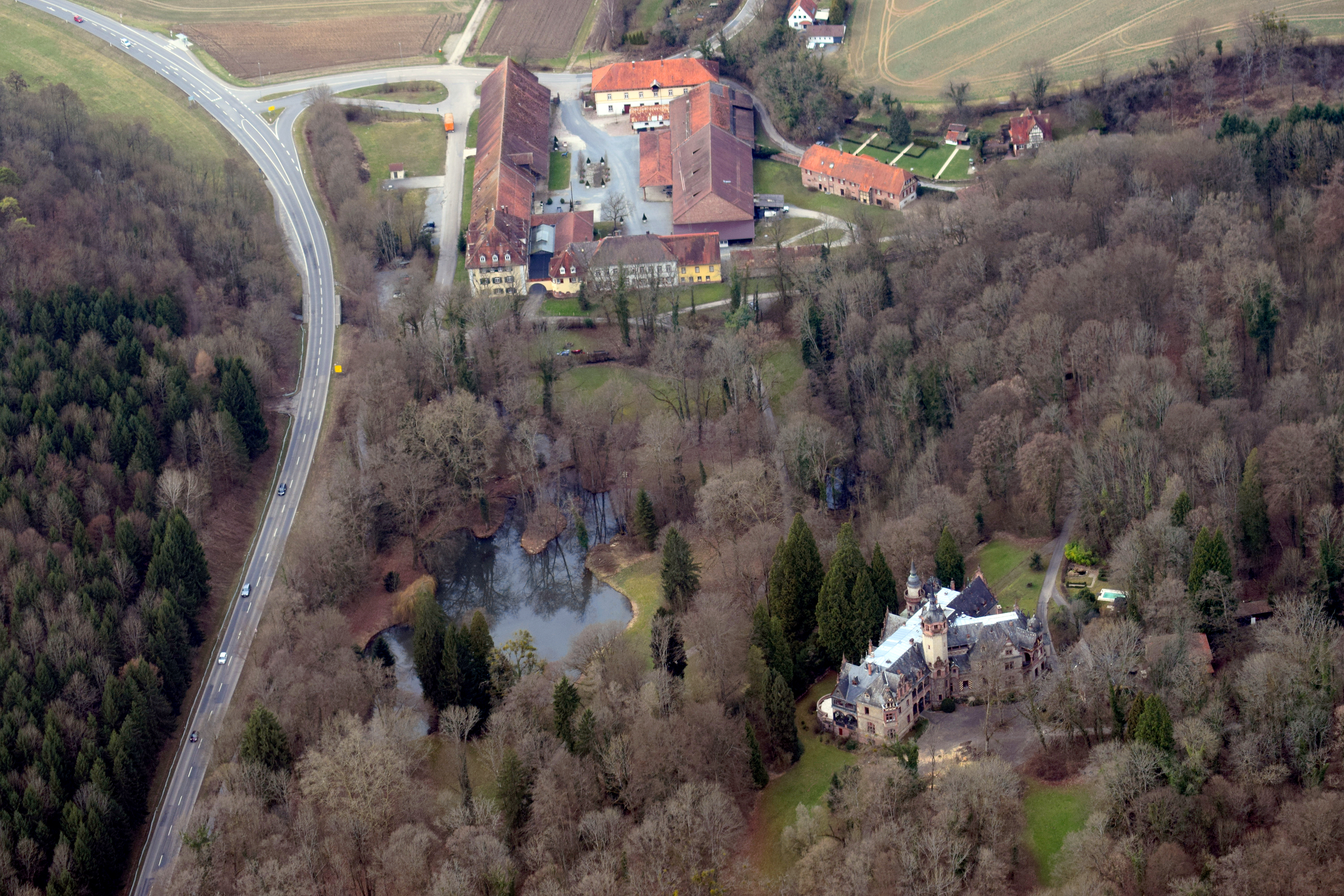 Aerial photo of the Old Castle (above) and the New Castle (below) Langenzell near Wiesenbach approx. 10 km east of Heidelberg.